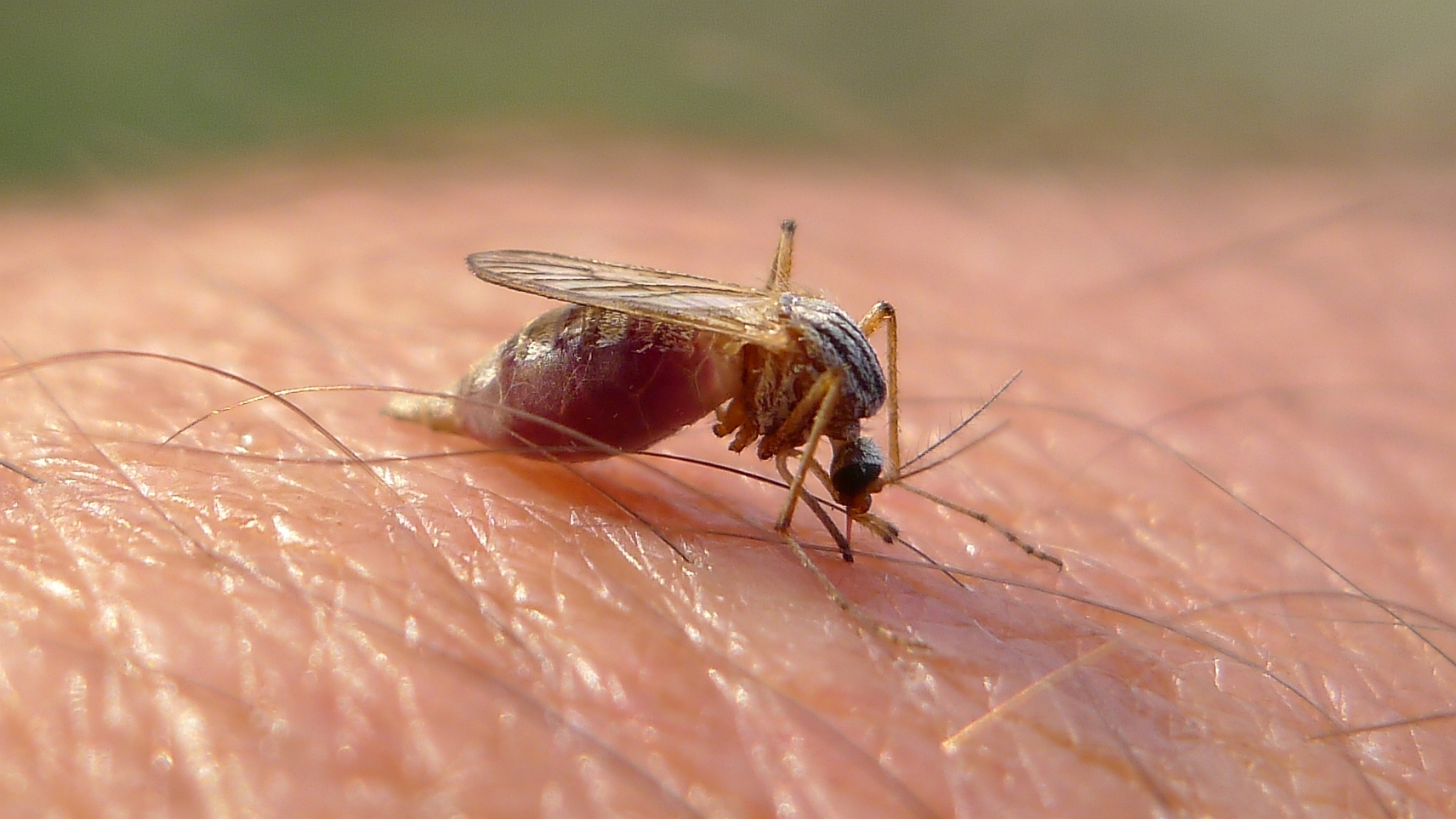 Just a few moments more, or she might explode. Probably Ochlerotatus vittiger (Culicidae: Culicinae). Gundaroo NSW Australia, December 2011.